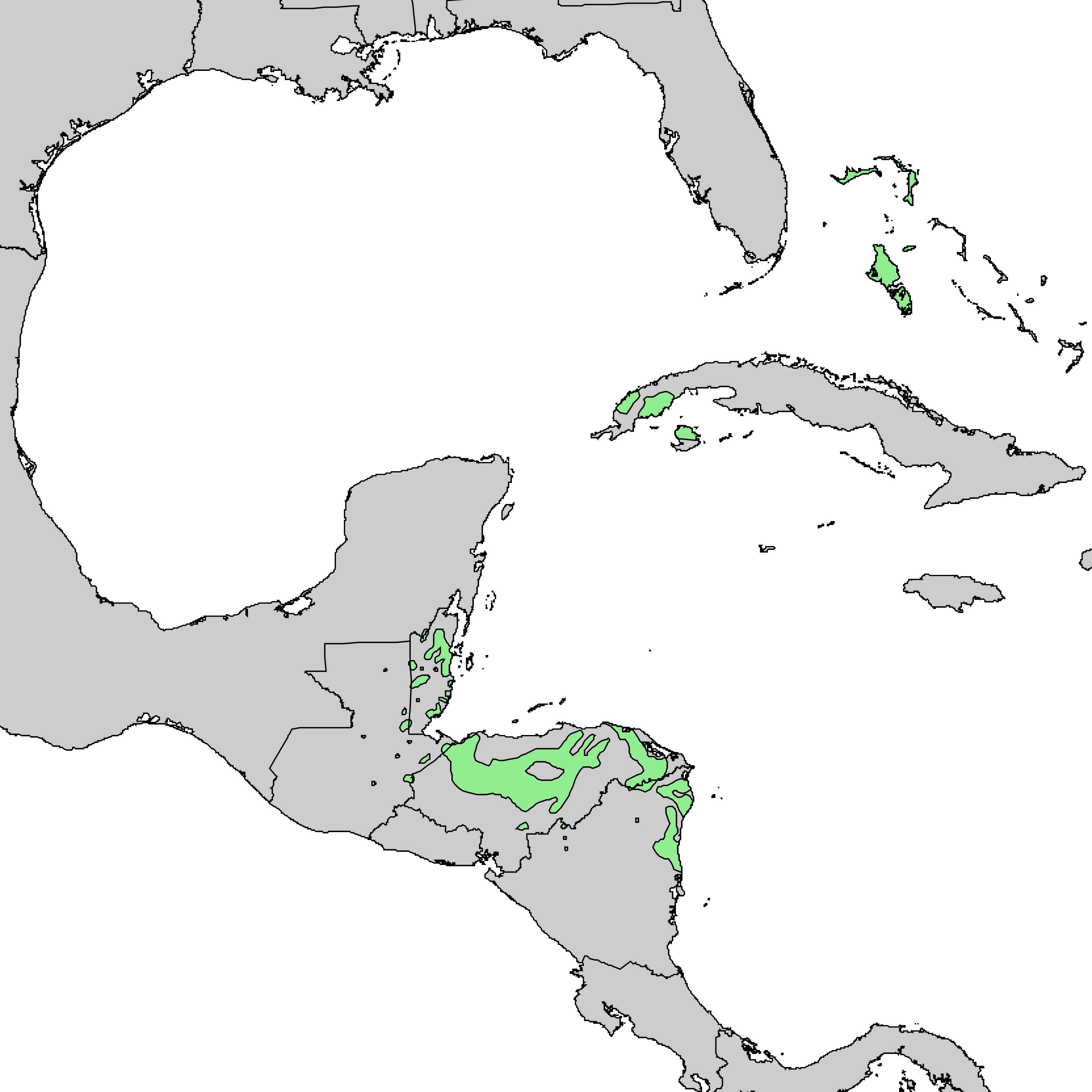 Natural distribution map for Pinus caribaea